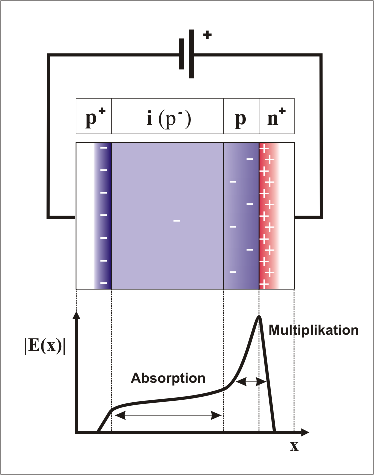 Si-Avalanche-Photo-Diode (APD) with space charge distribution under reverse voltage (top), and corresponding electric field distribution (bottom).